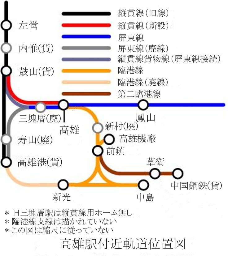 Railroad Around Kaohsiung Station